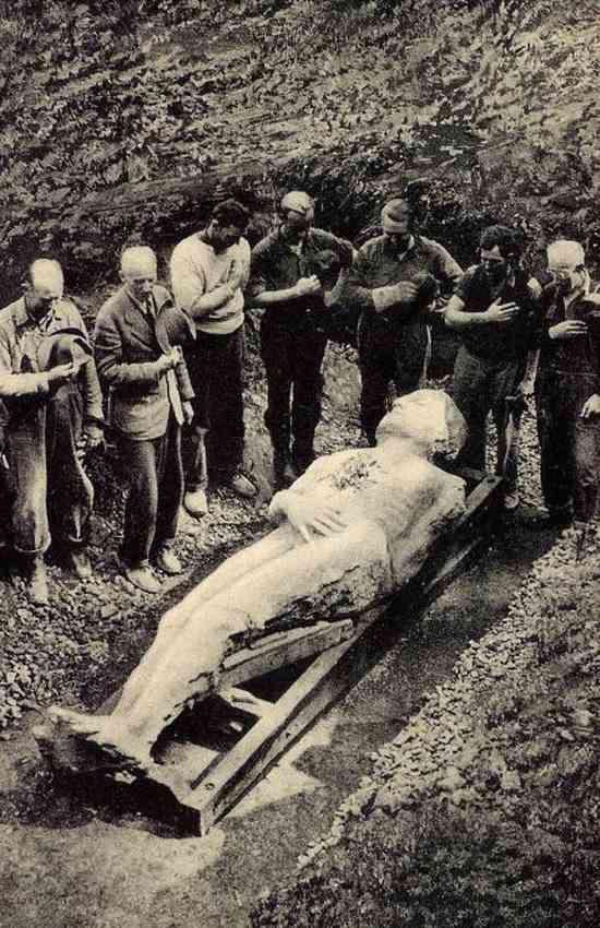 Excavation of the "Cardiff Giant" in 1869